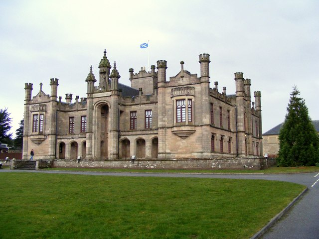 Milne's Primary School at Fochabers